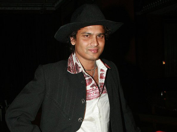 From The Audio Release Of Zubeen Garg's Album "Zindagi"